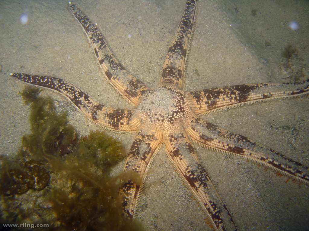 A Southern Sand Star (Luidia australiae) partially buried in sand. Clifton Gardens, Mosman, NSW